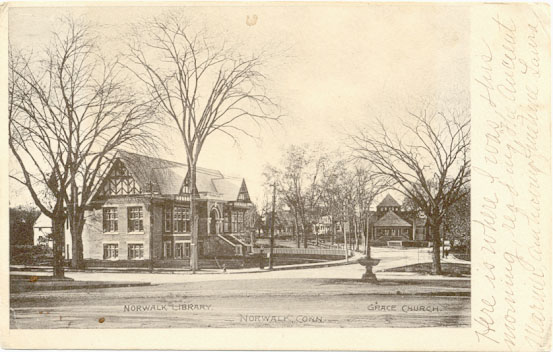 Postcard: Norwalk Library (which was still there as of 2007) and Grace Church (no longer there) in the Central section of Norwalk, Connecticut, 1905 postmark Description: store Web page states: "Early Postcard of a Street Scene which includes the Norwalk Library and the Grace Church in the background. Card is postmarked twice; Aug. 24, 1905 and Aug. 25, 1905. UNdivided Back." Picture on the front of the card has labels near the bottom of the picture for "Norwalk Library" and "Grace Church" and "Norwalk, Conn." Message: "Here is where I was this morning, read my Ancient Mariner, am having fun time. Laura"